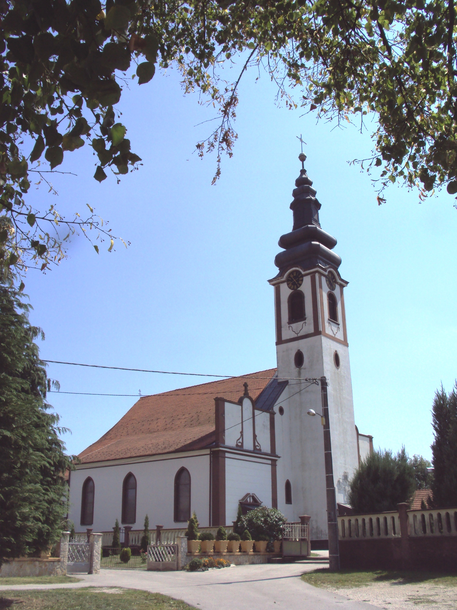 Church of Virgin Mary Birth in Mala Subotica, Croatia